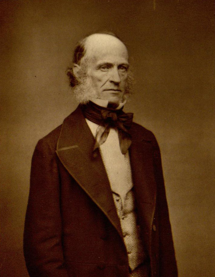 Portrait of H. C. Watson (1804-1881)